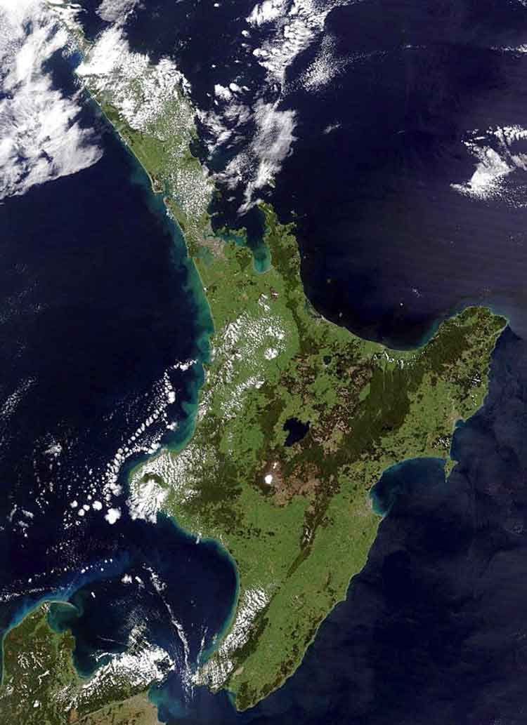 This true-color image provides a nearly cloud-free view of the North Island of New Zealand. The scene was acquired by NASA’s Terra satellite, on October 23, 2002.